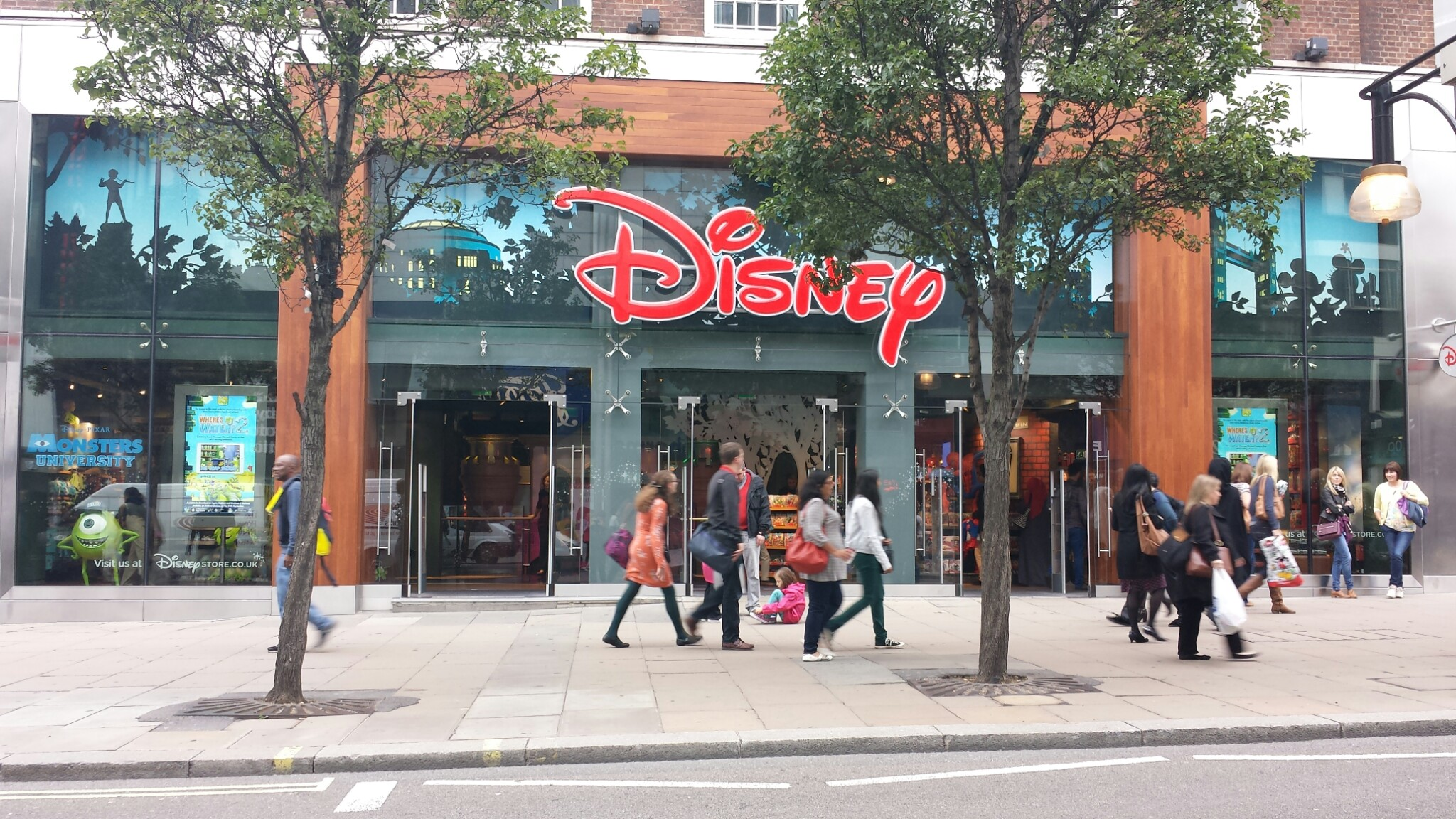 Disney Store on Oxford Street